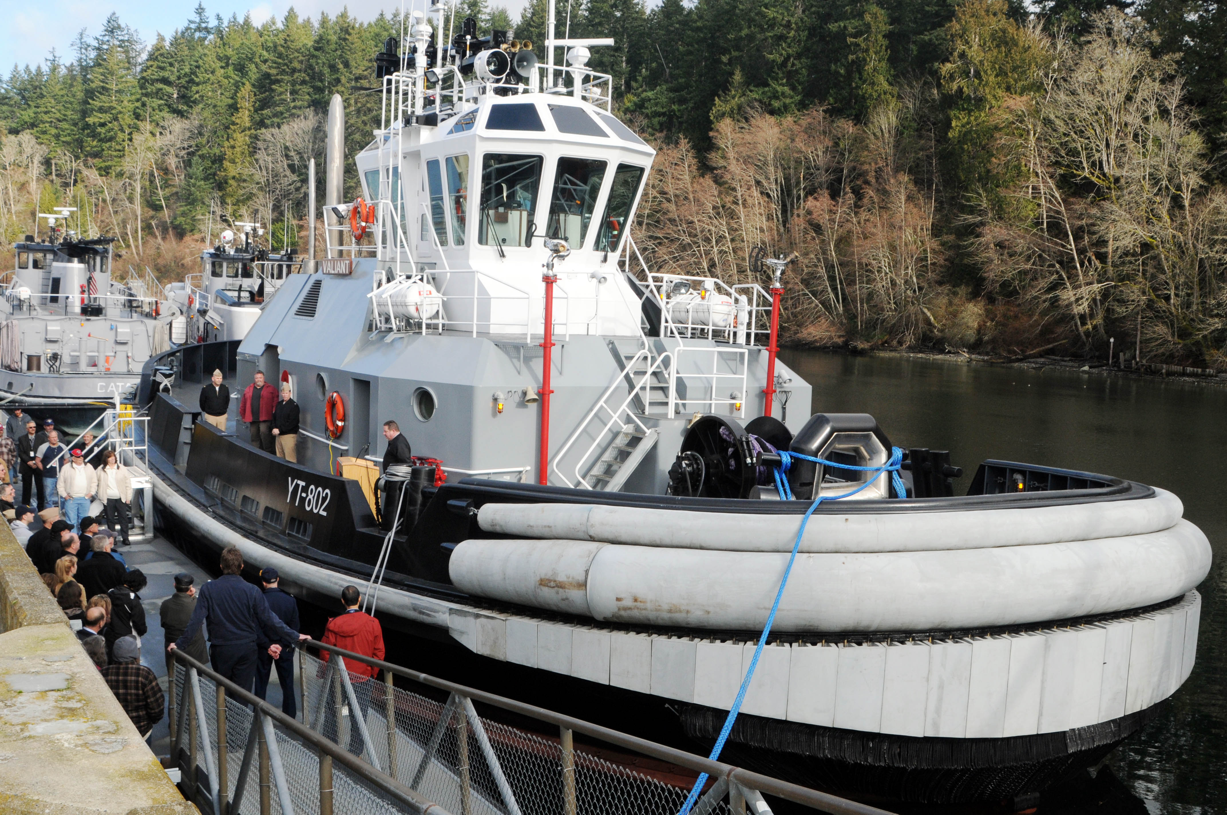 SILVERDALE, Wash. (Feb. 9, 2010) Rob Campbell, deputy program director of Navy Region Northwest Port Operations, delivers remarks during the activation ceremony for the new Navy tug boat Valiant (YT 802) at Naval Base Kitsap. (U.S. Navy photo by Mass Communication Specialist 2nd Class Maebel Tinoko/Released)